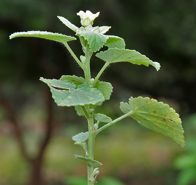 Bala, Khareti or Country Mallow Sida cordifolia in Hyderabad , India.